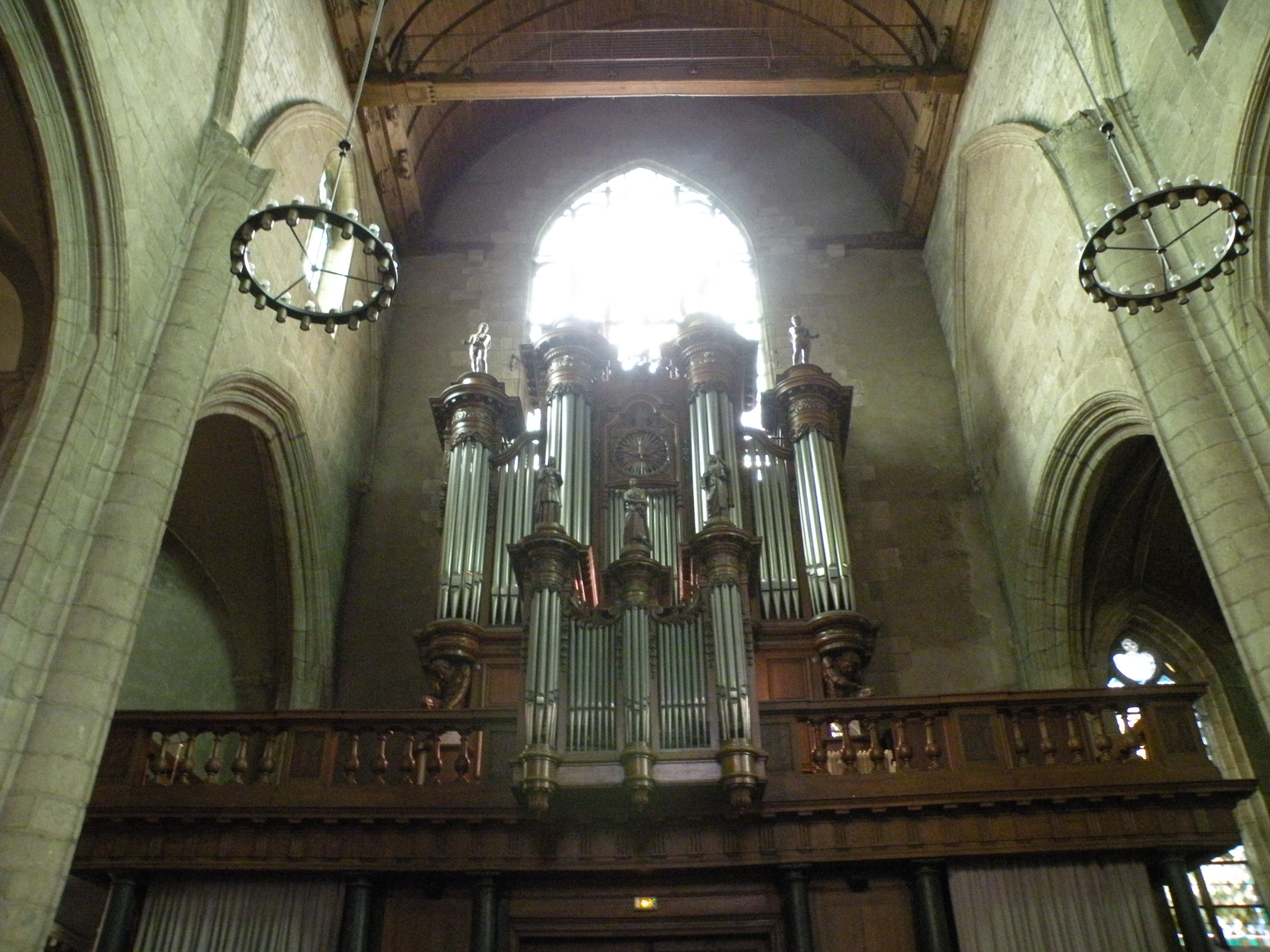 Pipe organs of Saint-Germain church in Rennes.